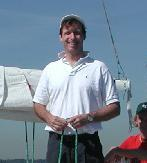 Paul Coleman Sailing